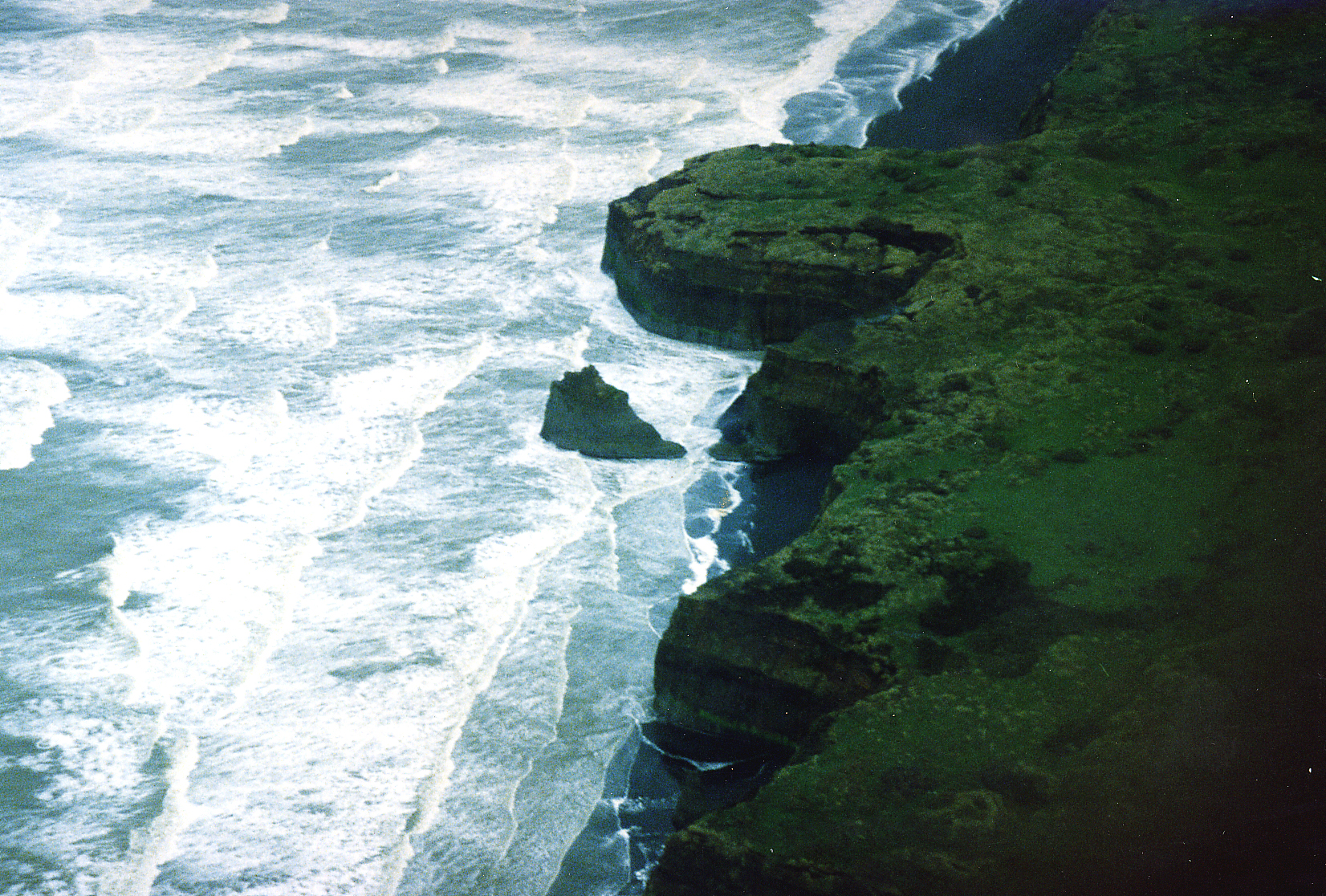 En route Paraparaumu to Hawera in a Piper Cub